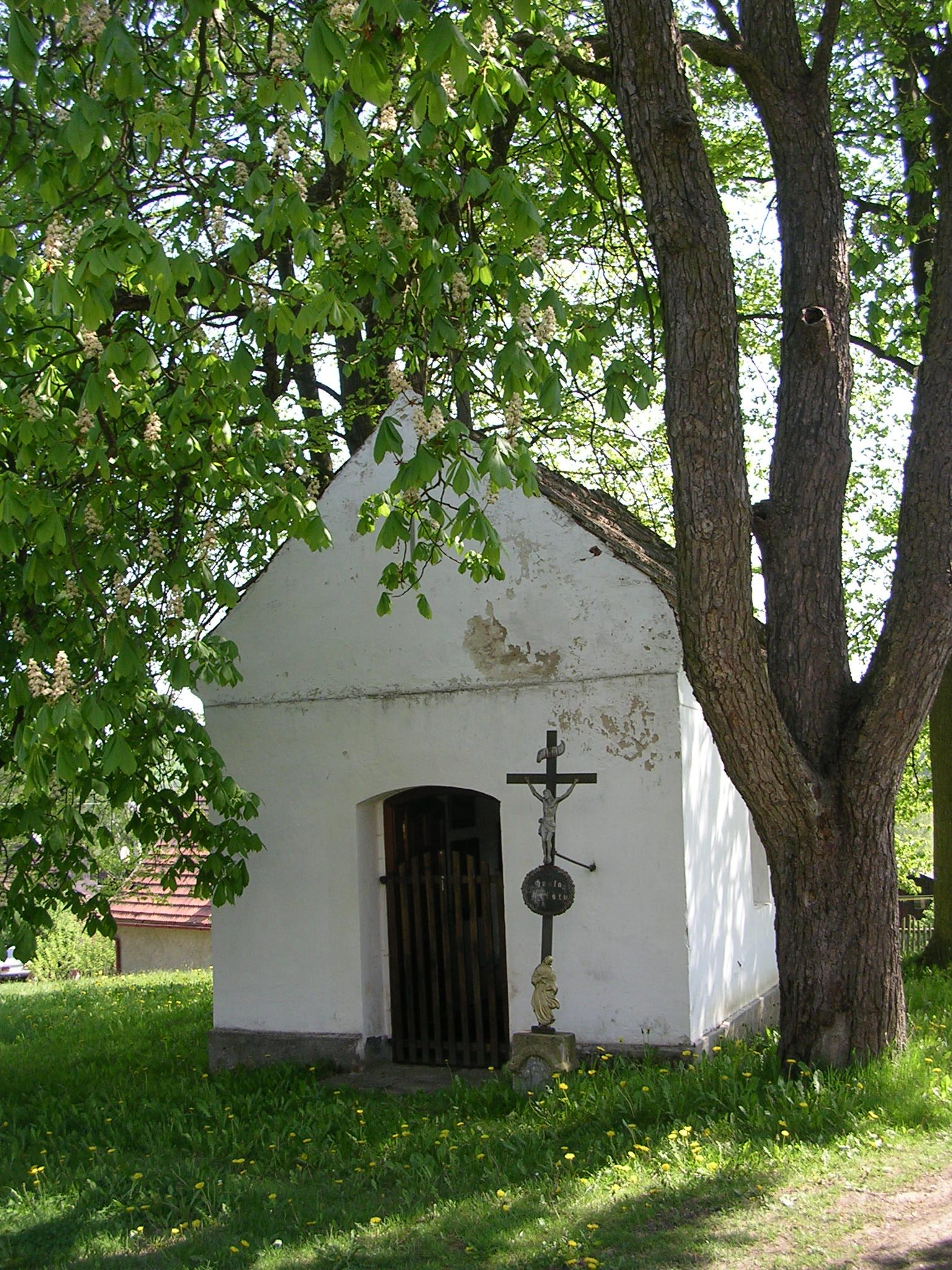 Kámen-Nízká Lhota, Vysočina Region, the Czech Republic.